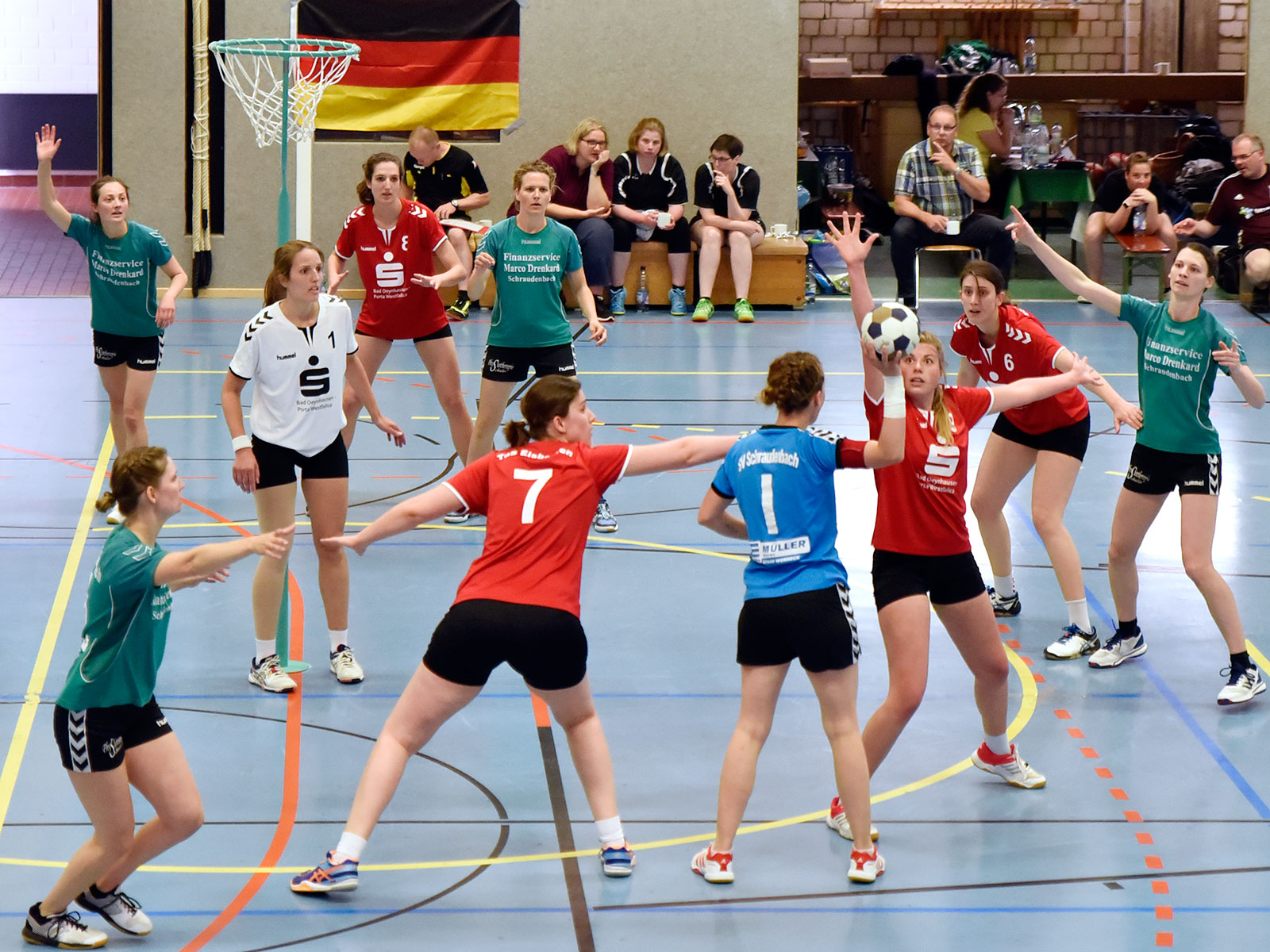 Scene from the semi-final between TuS Eisbergen (red jerseys, goalkeeper white jersey) and SV Schraudenbach at the 50th German Indoor Korbball Championships in Oerlinghausen.